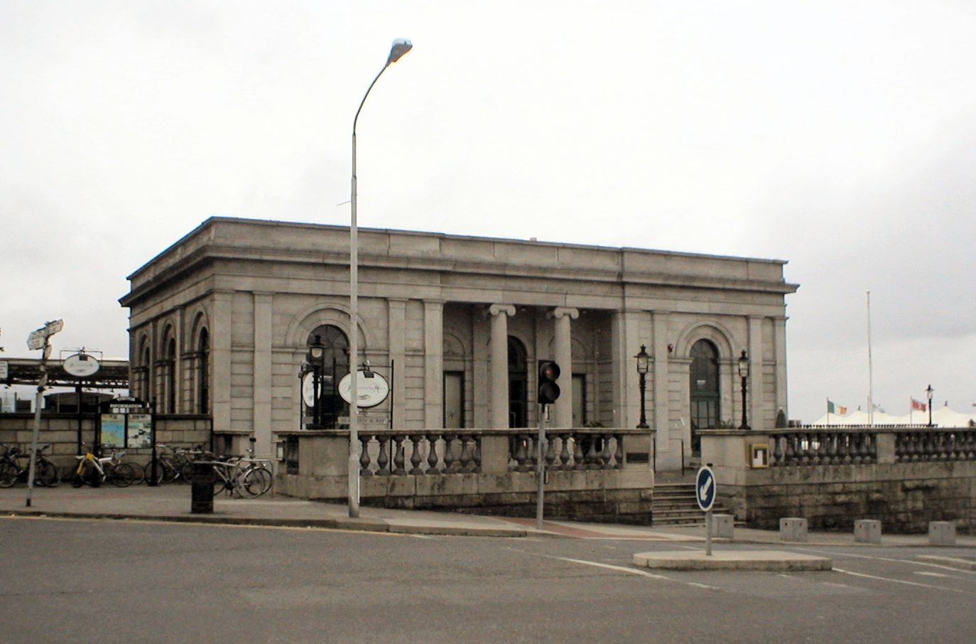 Kingstown railway station, Dublin